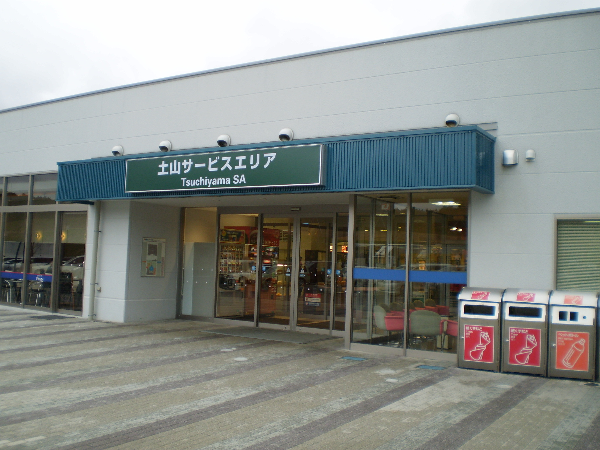 Tsuchiyama Service area